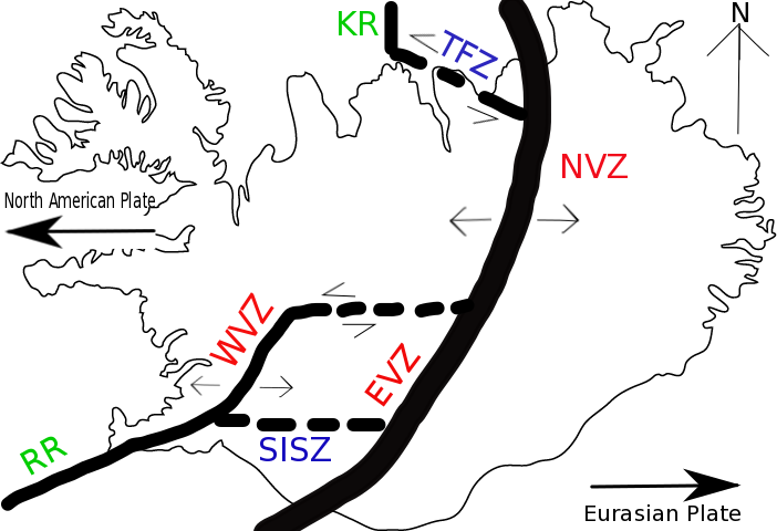 Fig 1. This figure (not in scale) shows the outline location of the major deformation zones in Iceland. The thickest line represents the divergent plate boundary. RR, Reykjanes Ridge; WVZ, Western Volcanic Zone; EVZ, Eastern Volcanic Zone; NVZ, Northern Volcanic Zone; SISZ, South Iceland Seismic Zone; TRZ, Tjörnes Fracture Zone.